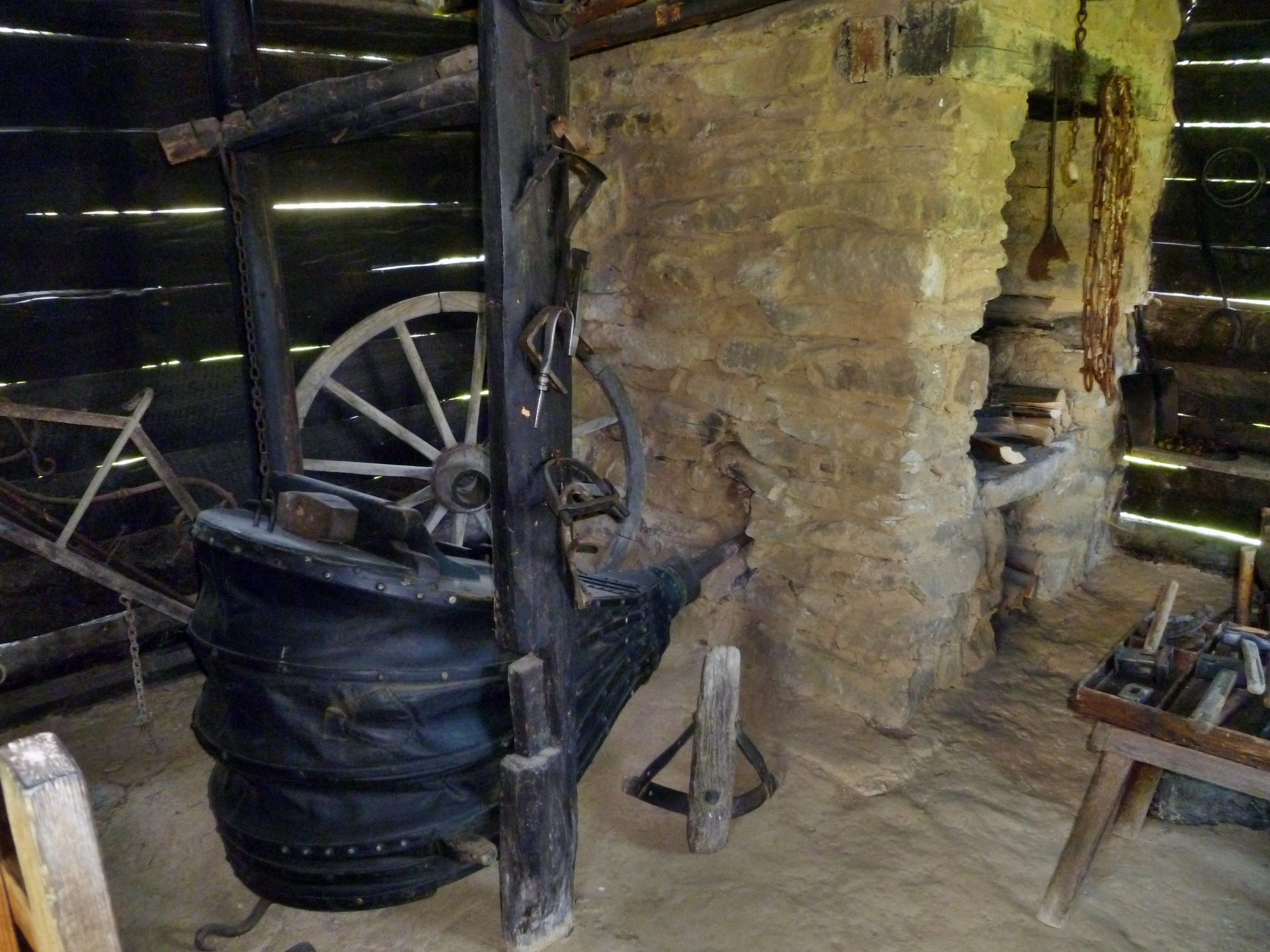 Bellows and oven in the smith's hearth in the open-air museum of Ľubovňa (Slovakia)